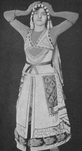 Sophie Pflanz, from a 1916 publication. A young white woman standing with both hands on her head, wearing a costume and bodystocking.